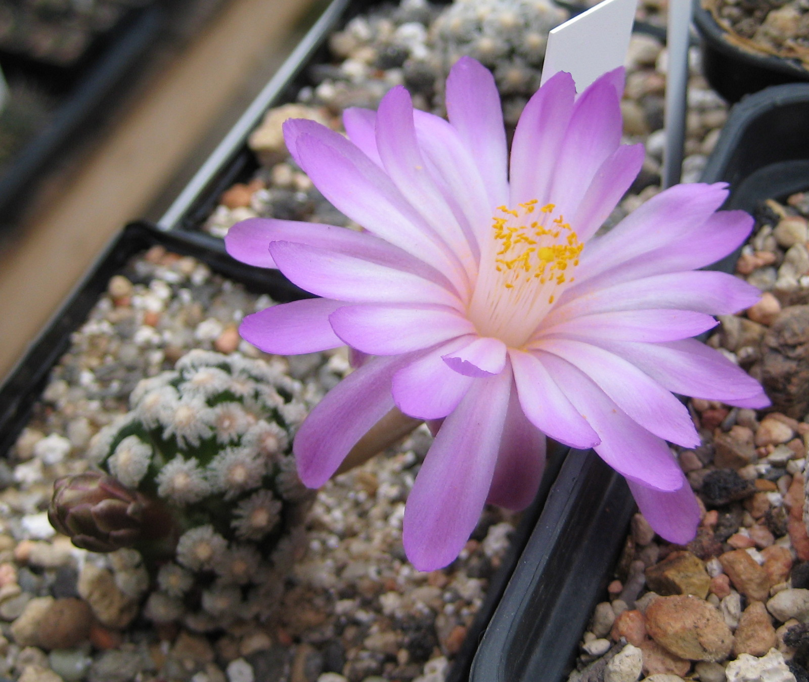 Mammillaria theresae